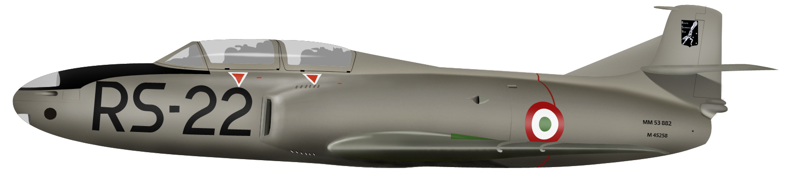 a FIAT G.80-3B preserved today at the "Museo Storico dell'Aeronautica Militare", Vigna di Valle, Rome, Italy, Air Museum.